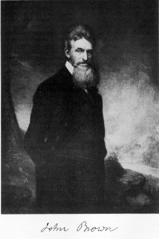 John Brown